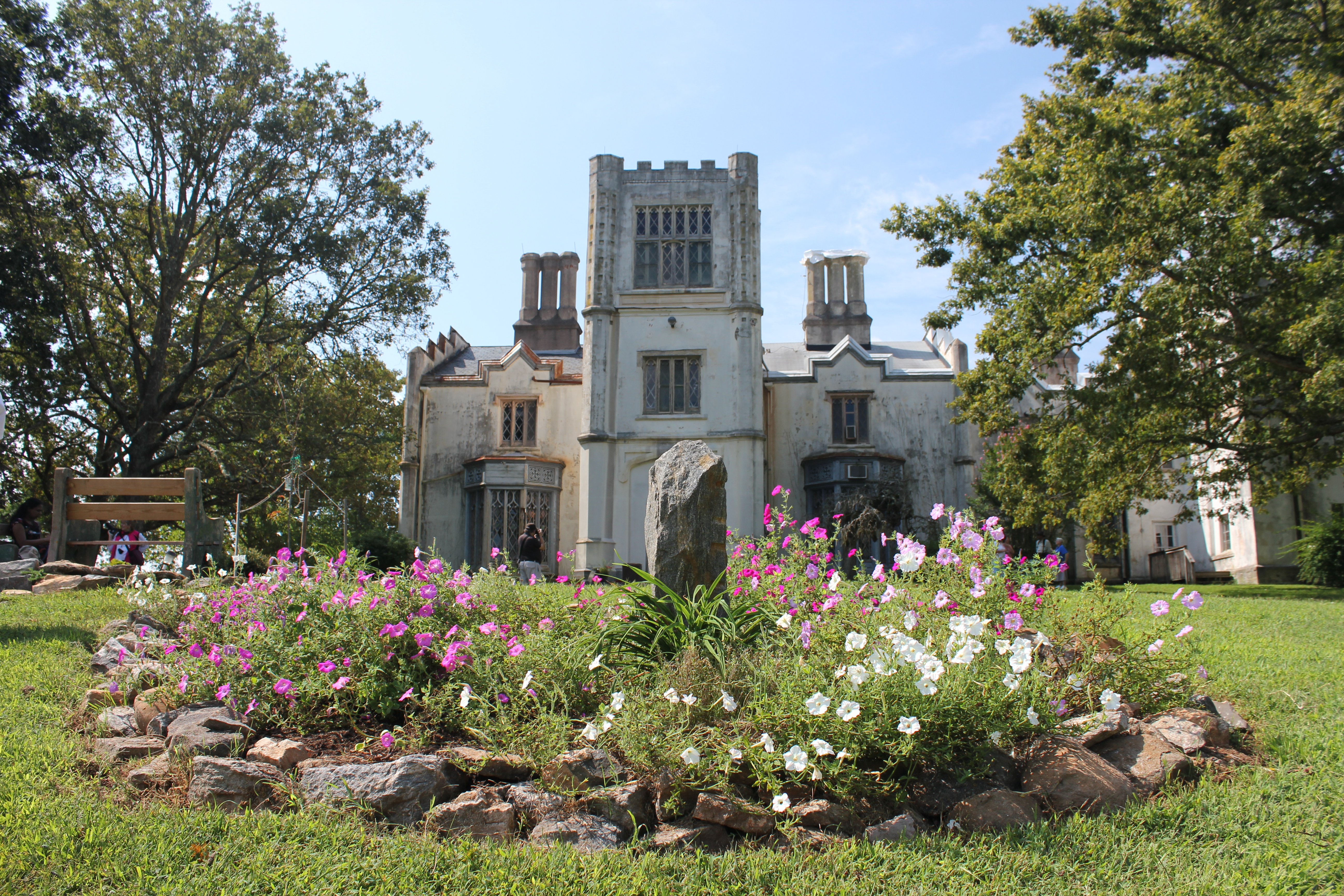 Belmead